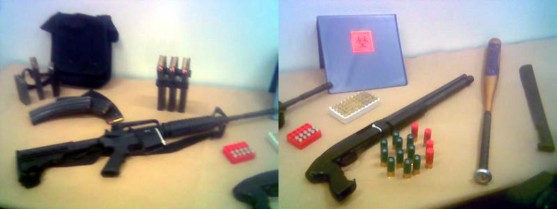 License: Released by the Seattle Police Department to the press, re: Capitol Hill massacre. The biohazard placard is there because some items still have blood on them. The shotgun is a look-alike placed there by police. The actual shotgun is undergoing forensic examination. The rifle, bandoliers, and ammunition are those found in the truck.